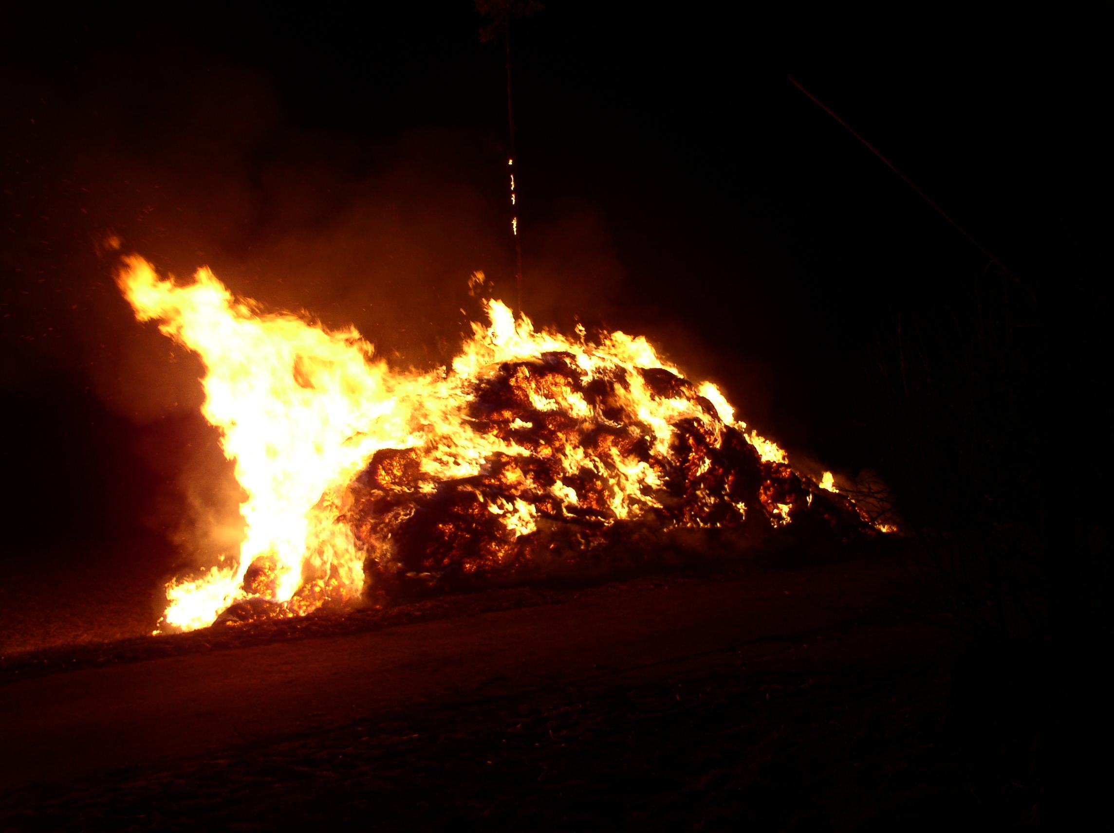 Traditionelles Funkenfeuer am Sonntag nach Aschermittwoch in Herdwangen, Kr. Sigmaringen, Baden-Württemberg, Deutschland (9.3.2003). Die Hexe an der Funkentanne auf der Spitze ist bereits abgefallen. Traditional "Funken" bonfire on the first sunday of lent. The "witch" at the tree on top of the "Funken" has already fallen down. Photo taken in Herdwangen, district of Sigmaringen, Baden-Württemberg, Germany (March 9th, 2003).